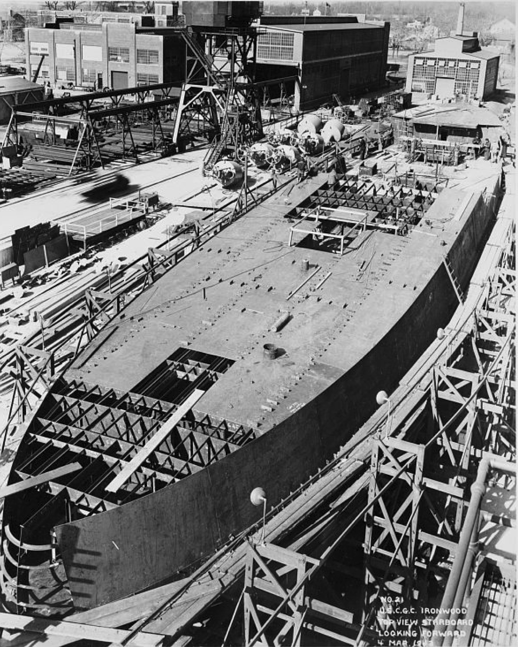 USCGC Ironwood under construction at the Coast Guard Yard at Curtis Bay, Maryland. The view is from the starboard side looking forward.